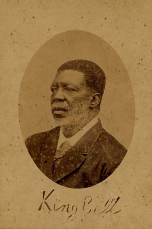 Photograph of King Bell of the Duala in Cameroon, late 19th century. Albumen print mounted on cardboard. Original dimensions: H: 9.25 inches (23 cm), W: 7 inches (18 cm).